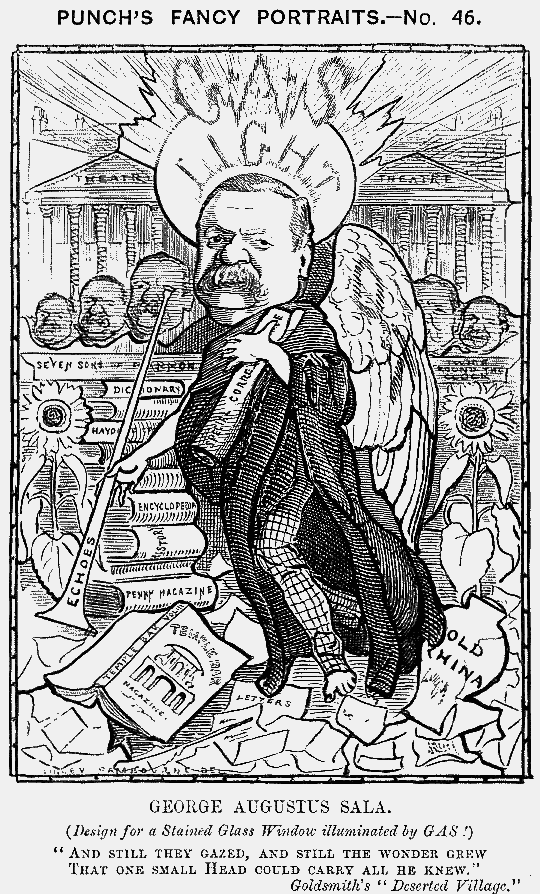 1881 Punch cartoon of George Augustus Sala : Punch's Fancy Portraits - No. 46. Caption read : George Augustus Sala. (Design for a Stained Glass Window illuminated by GAS !) "And still they gazed, and still the wonder grew That one small head could carry all he knew." Goldsmith's "Deserted Village"